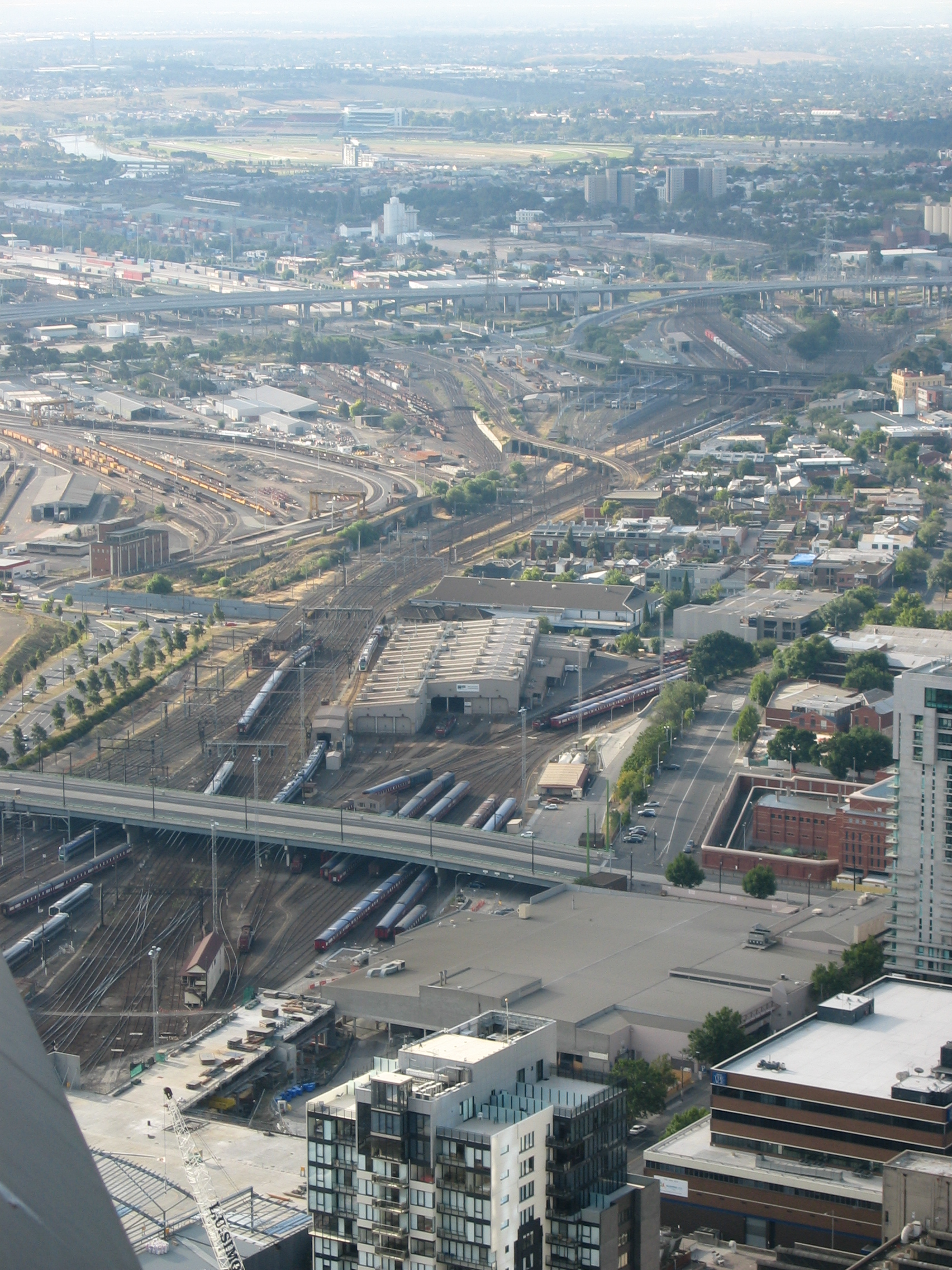 Overview looking north-west from the CBD in Melbourne, Australia. Dudley Street train carriage yards in foreground, and Latrobe Street bridge then Melbourne Yard freight terminal. Elevated CityLink freeway overpass in background.